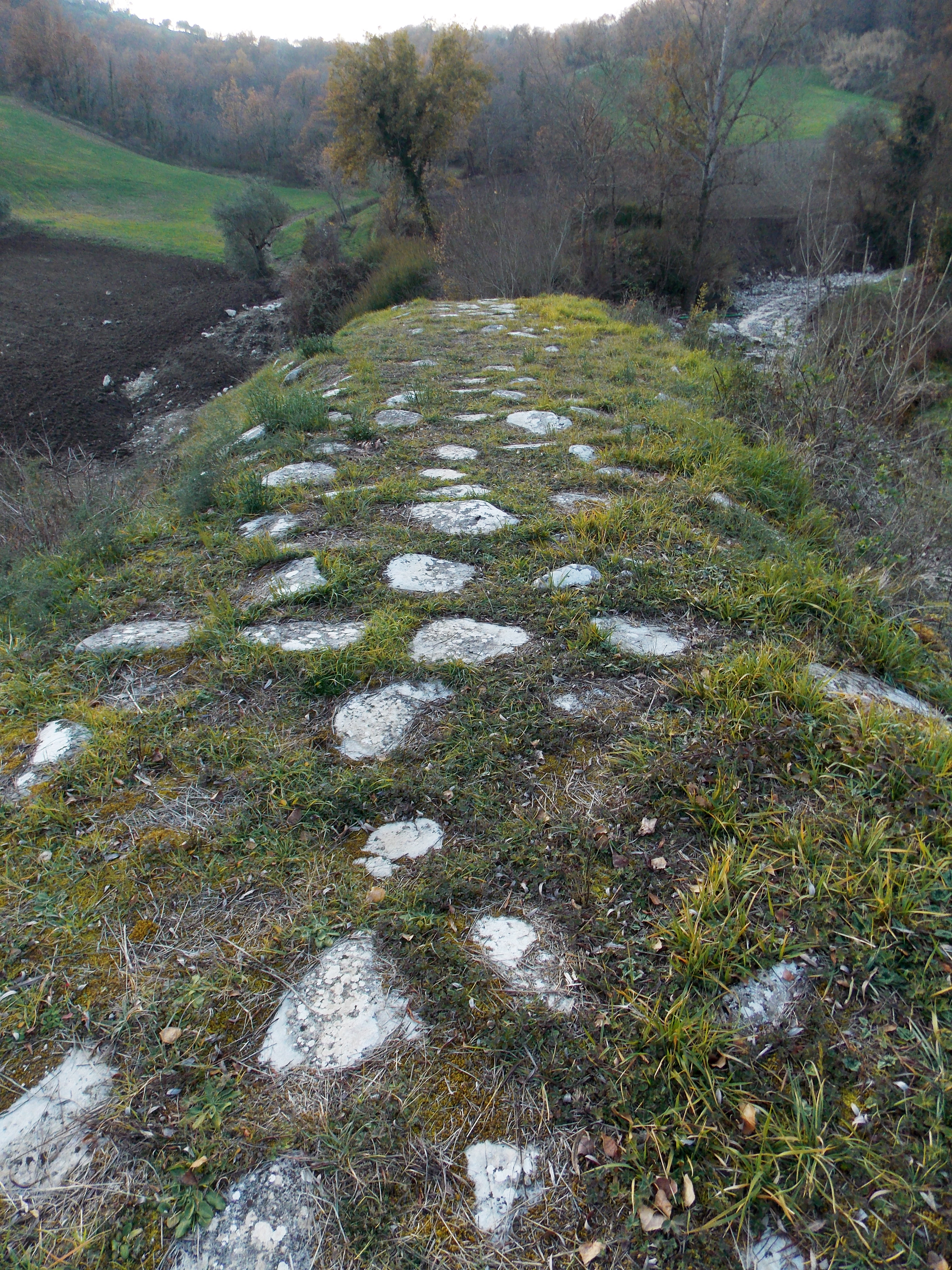 Ponte delle Chianche, Buonalbergo, Southern Italy, along the via Traiana (2nd century AD). The pavement.